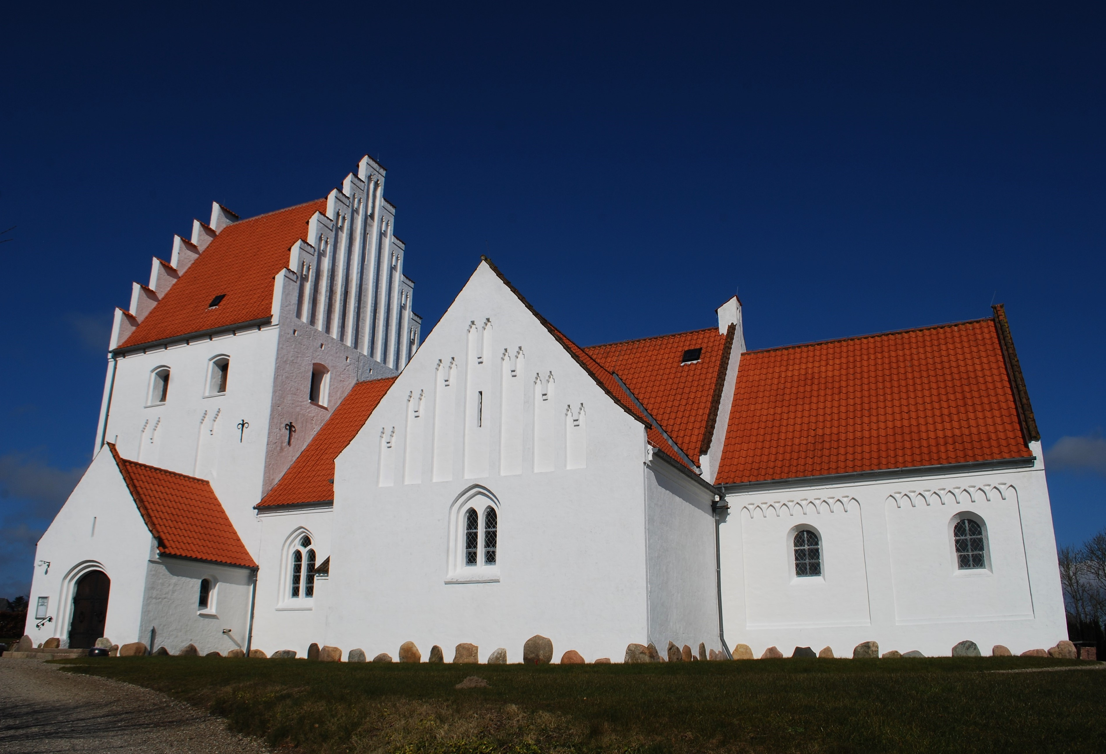 Church og Rinkenæs, Sønderborg Kommune, Denmark